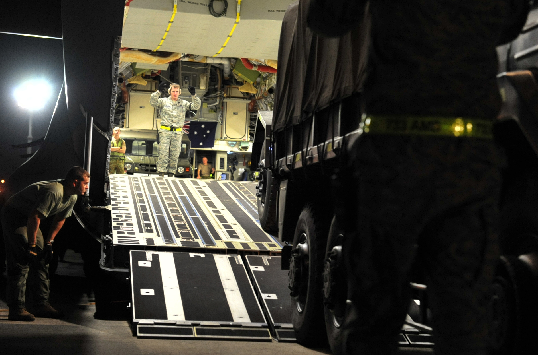 Senior Airman Andrew Ammerman, an Air Terminal Operations Center controller with the 733rd Air Mobility Squadron, guides a 15 Brigade, Japan Ground Self Defense Force truck onto a Royal Australian Air Force C-17 Globemaster III of No. 36 Squadron at Kadena Air Base, Japan, March 17. The truck was being loaded onto the aircraft, along with a team of JGSDF members and supplies to be sent to northern Japan in support of earthquake and tsunami relief efforts. (U.S. Air Force photo/Senior Airman Sara Csurilla)